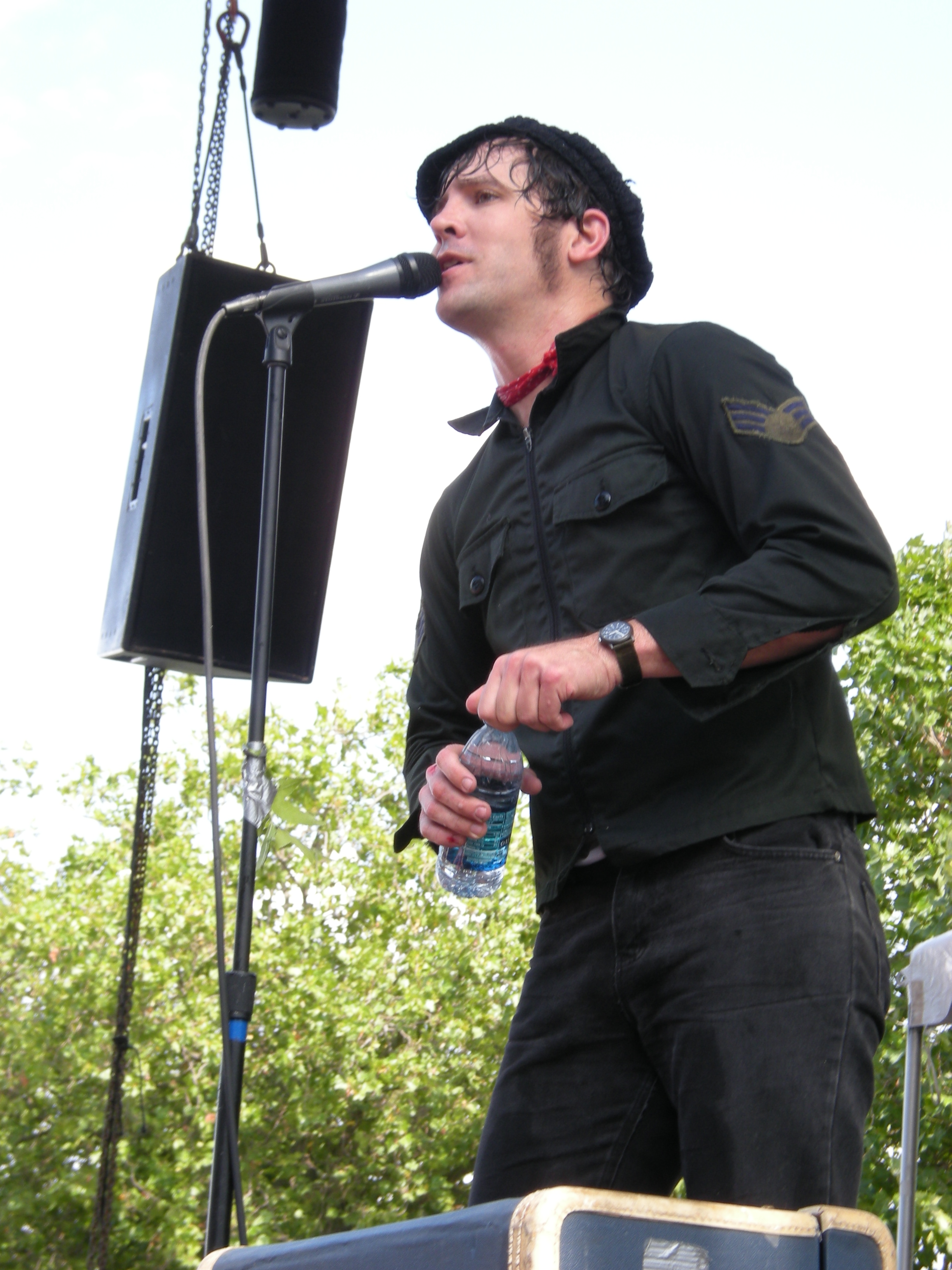 Mark Redding of The Shackeltons performing at Bumbershoot 2008, Seattle Center, Seattle, Washington.